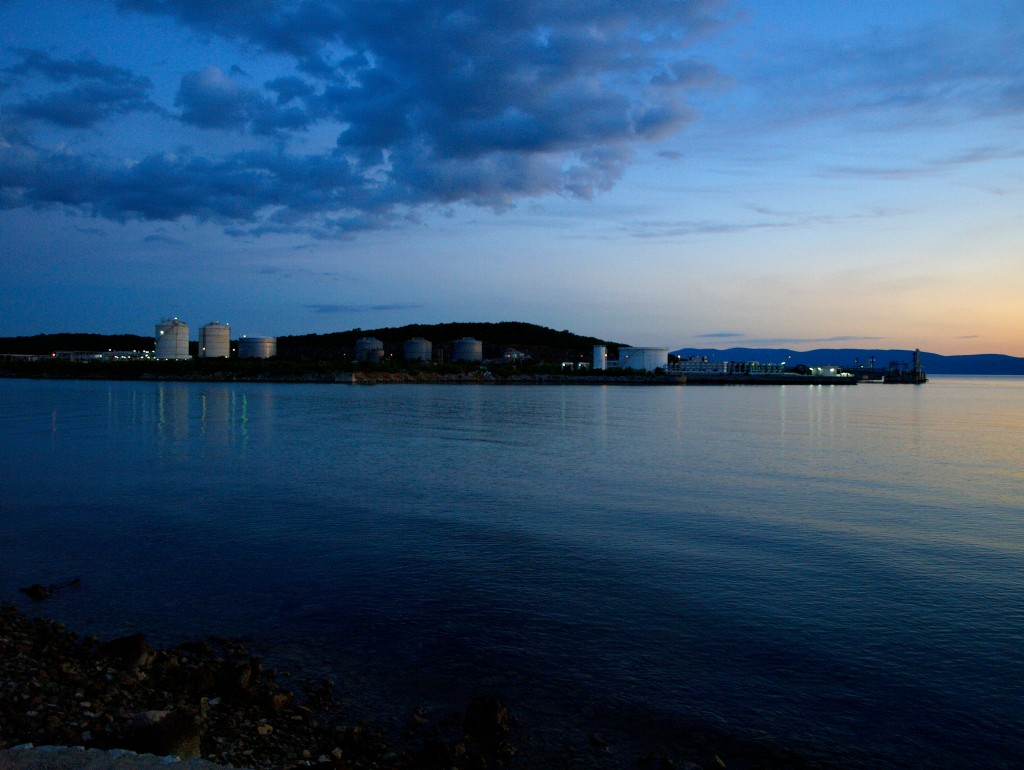 Janaf oil terminal in Omisalj, Krk Island, Croatia.